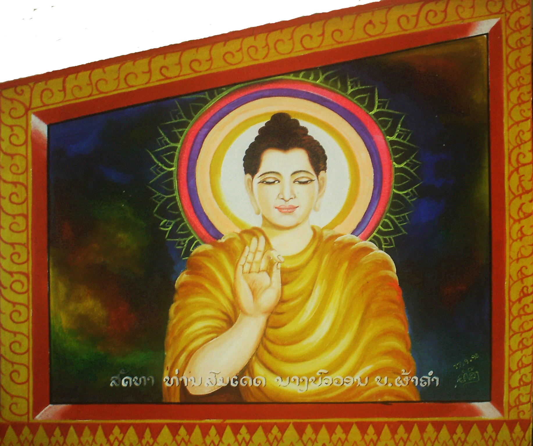 Portrait of Buddha, in teaching posture